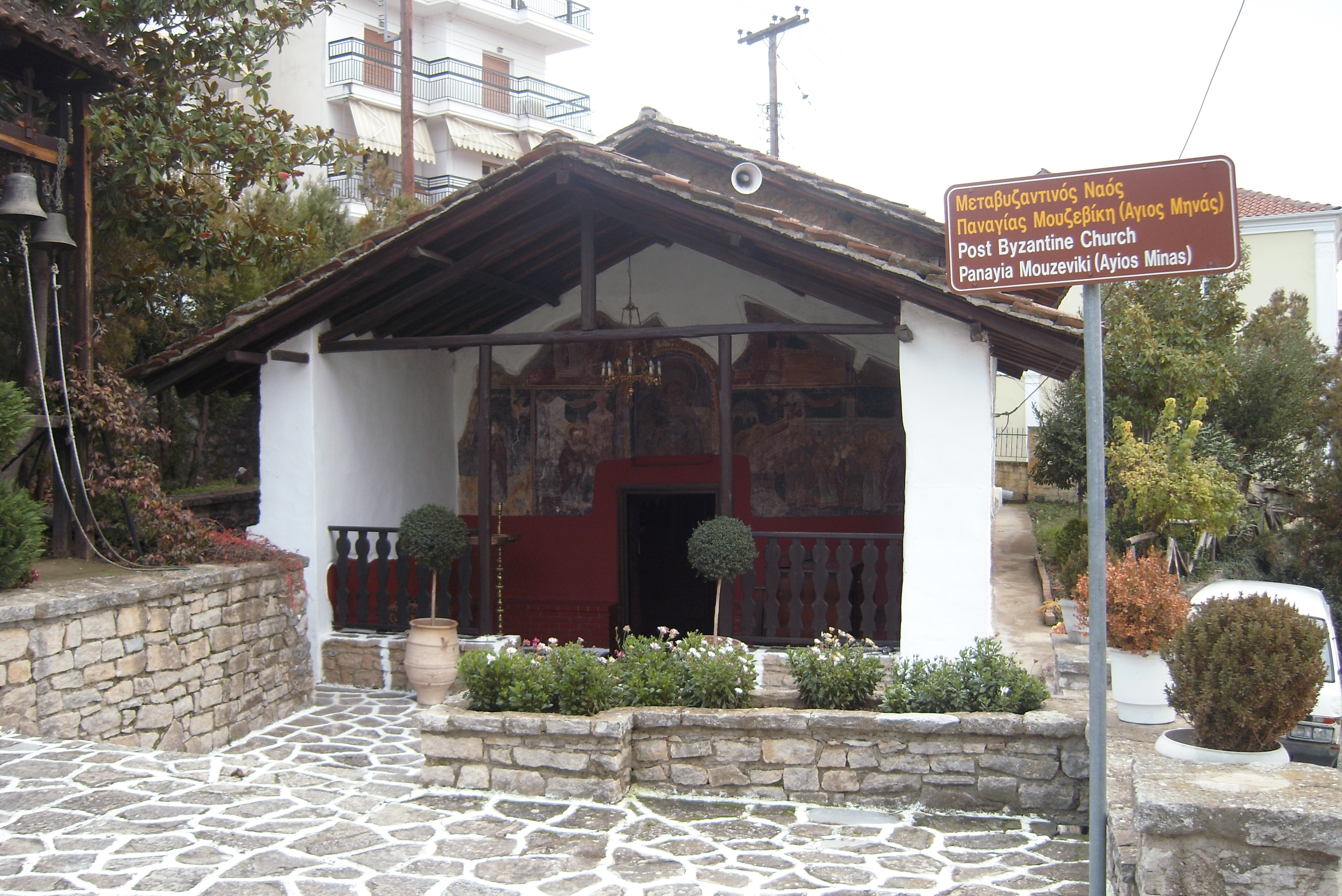 Panagia Mouzeviki